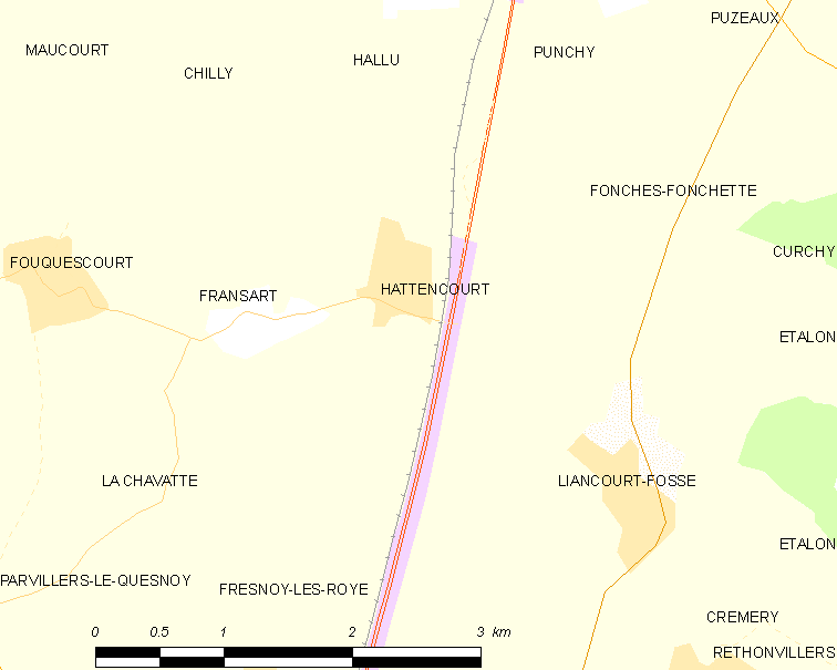 Map of French municipality Hattencourt